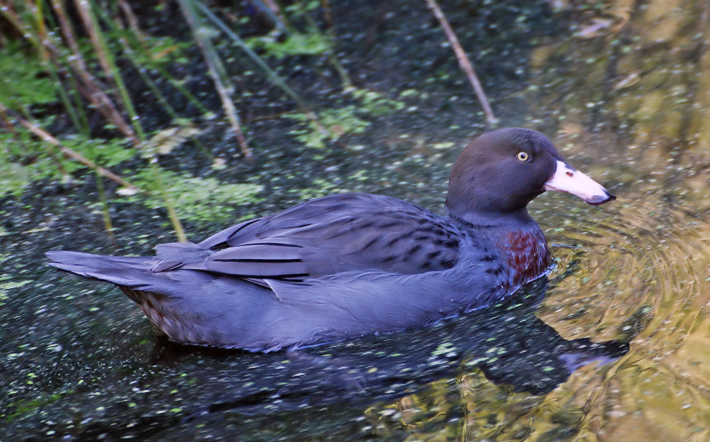 The blue duck/whio is only found in New Zealand. It is a nationally vulnerable species and faces a risk of becoming extinct. The blue duck is one of a handful of torrent duck species worldwide. It is a river specialist which inhabits clean, fast flowing streams in the forested upper catchments of New Zealand rivers. They are endemic to New Zealand so are found nowhere else in the world.